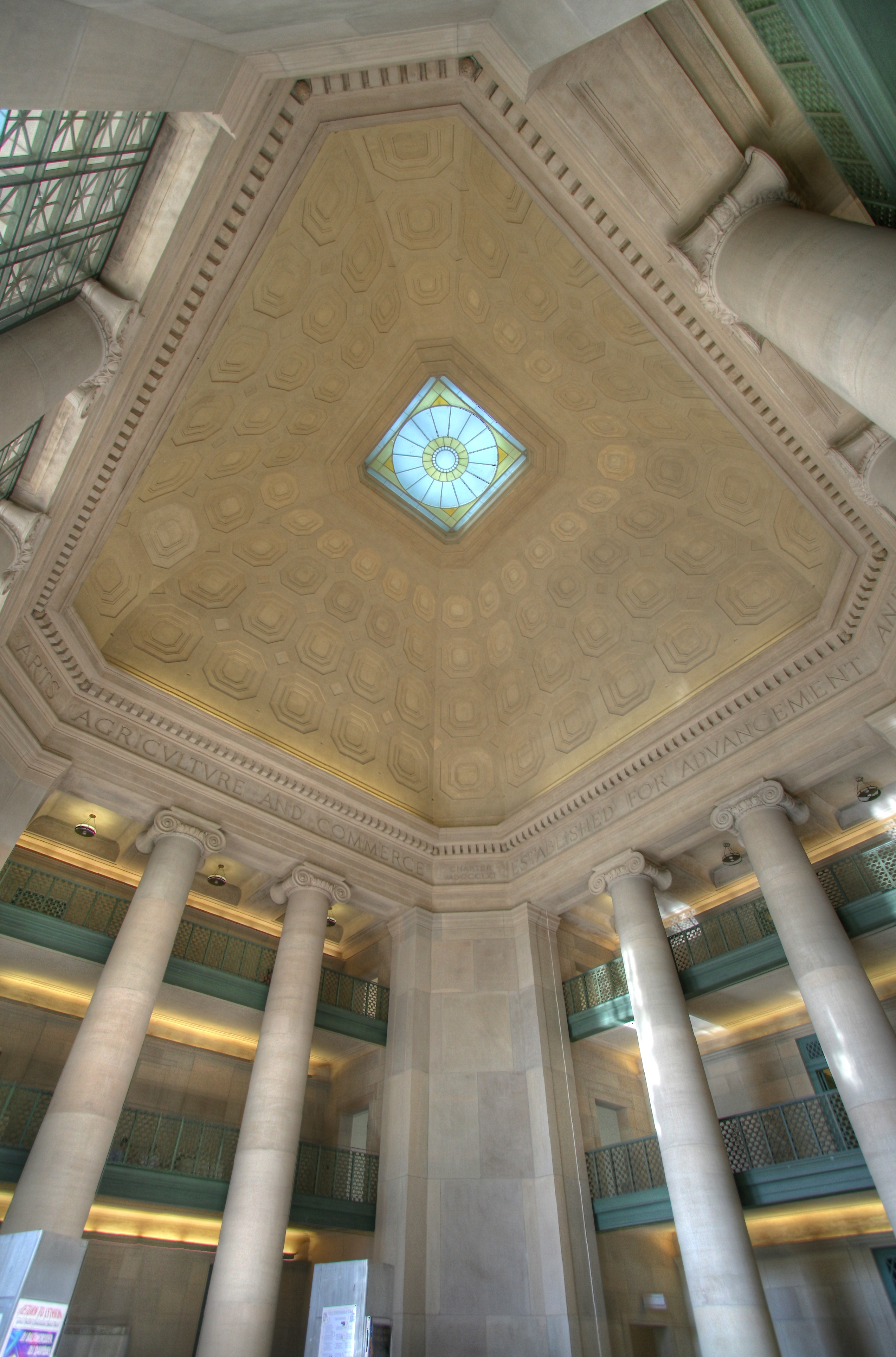 MIT's Lobby 7